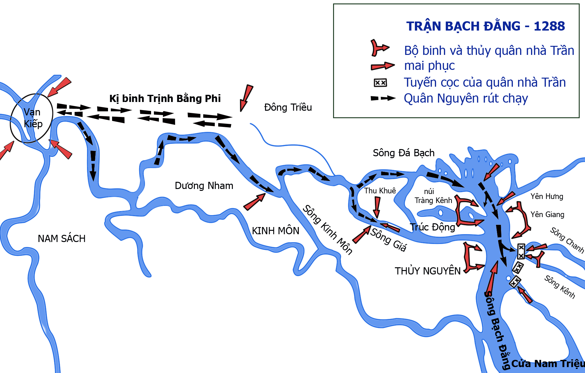 Vietnamese map of the Battle of Bạch Đằng (1288)